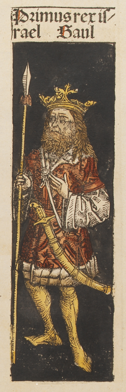 Woodcut from the Nuremberg Chronicle